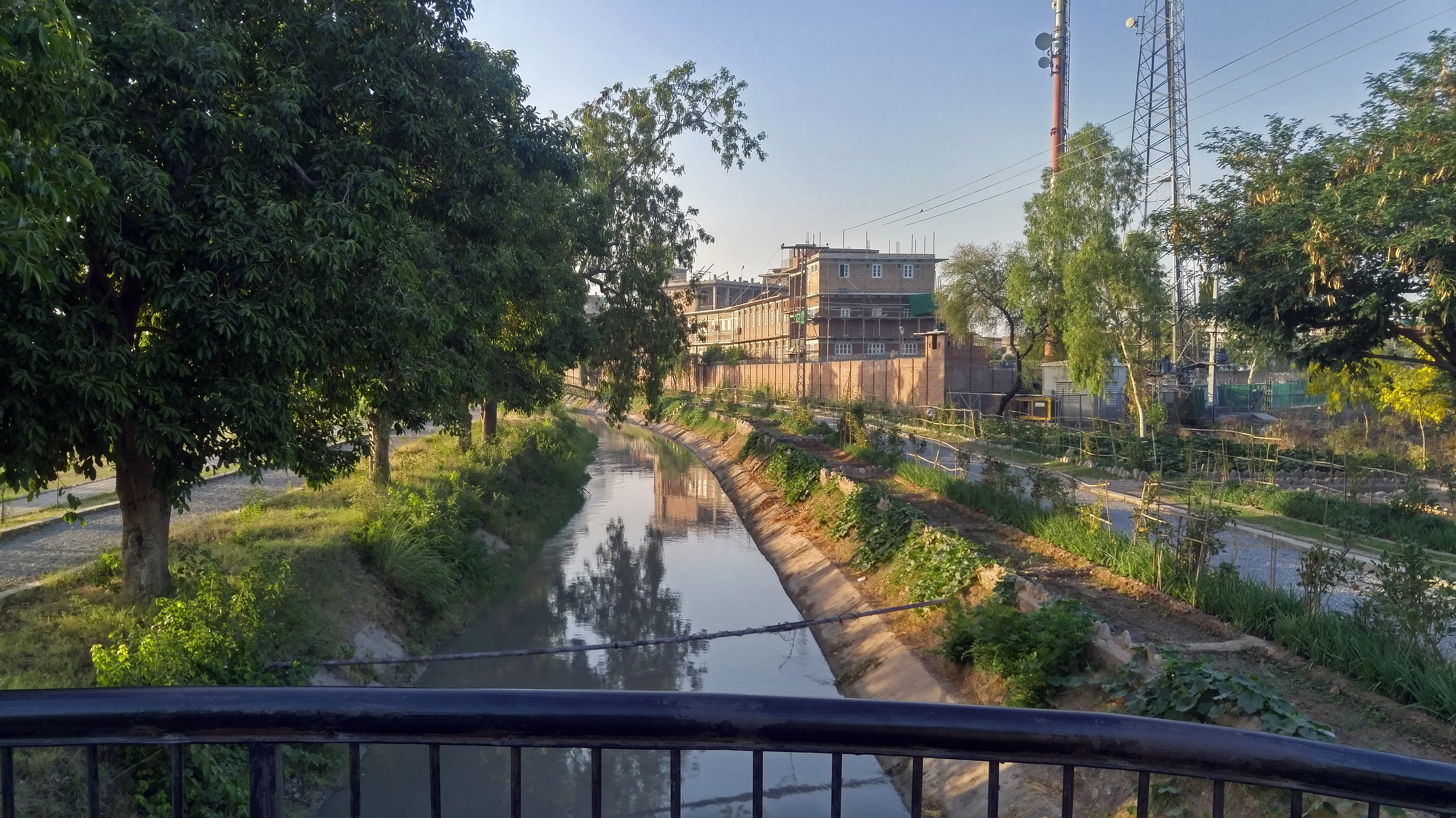 View of Shalman park and St. Francis High School